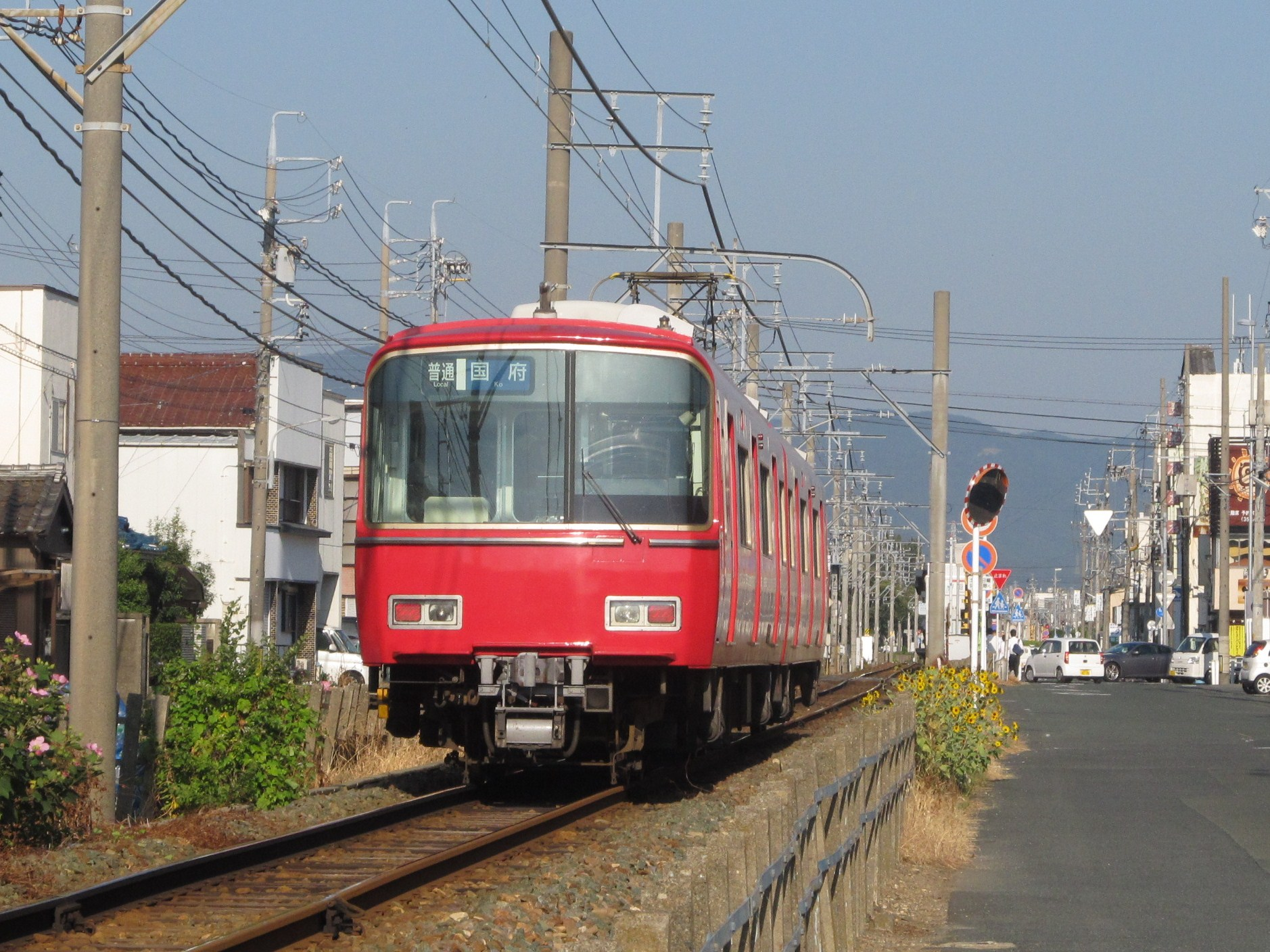 Meitetsu 6800 series. Bound for Kō.